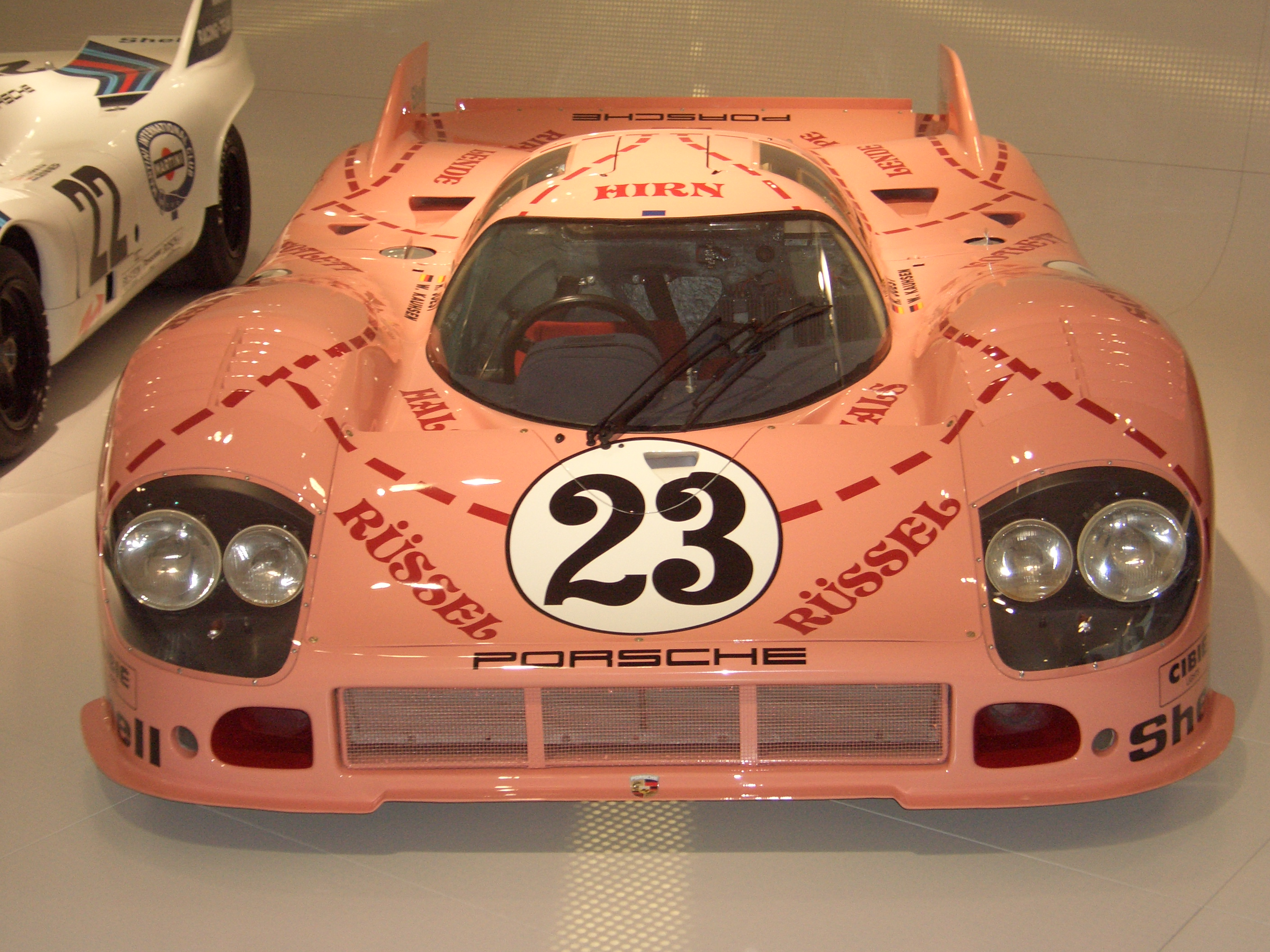 see filename for despcription - seen at PORSCHE MUSEUM in Stuttgart, Germany